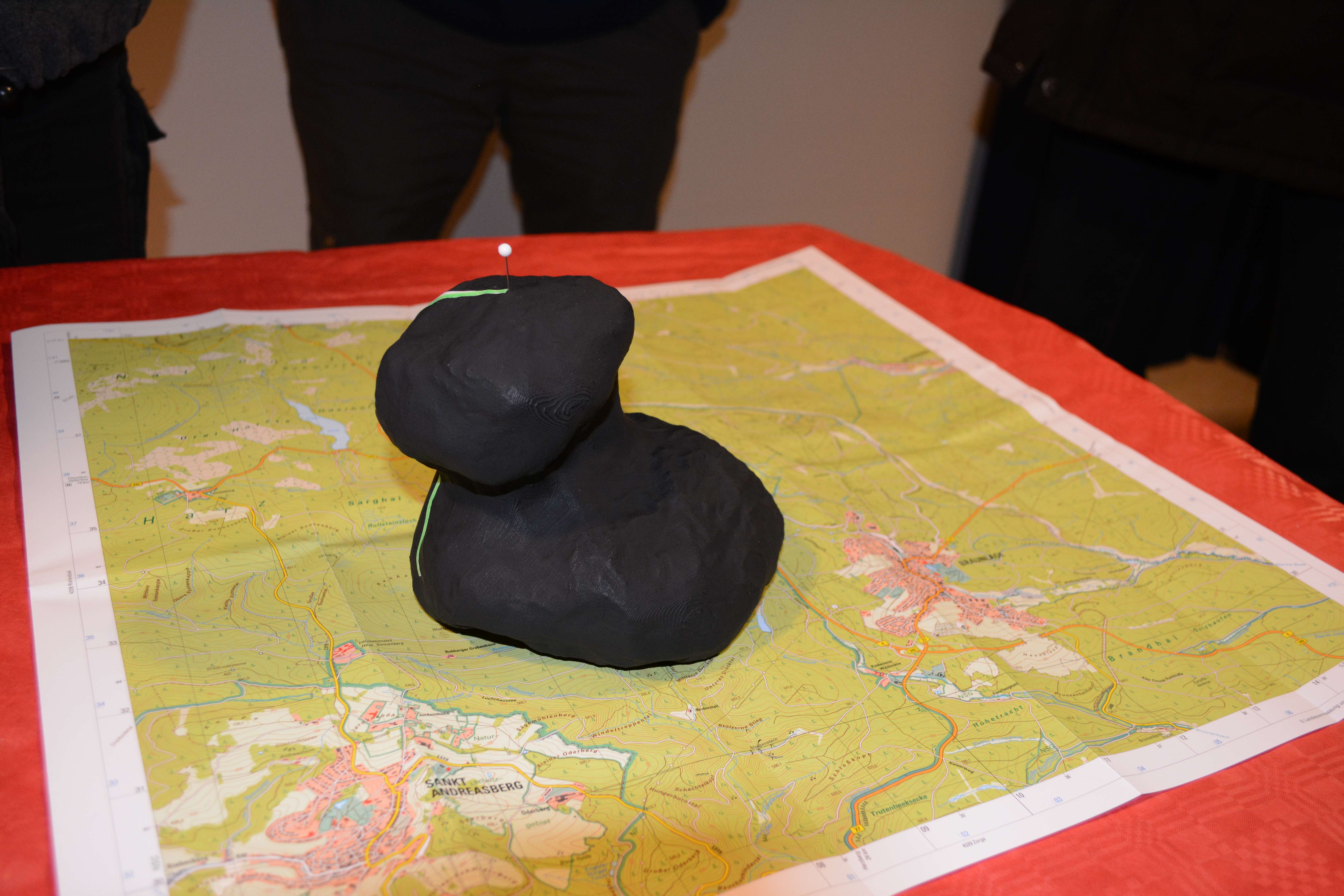 3d-printed model of Churyumov–Gerasimenko on a Map of Sankt Andreasberg and Braunlage in the same scale